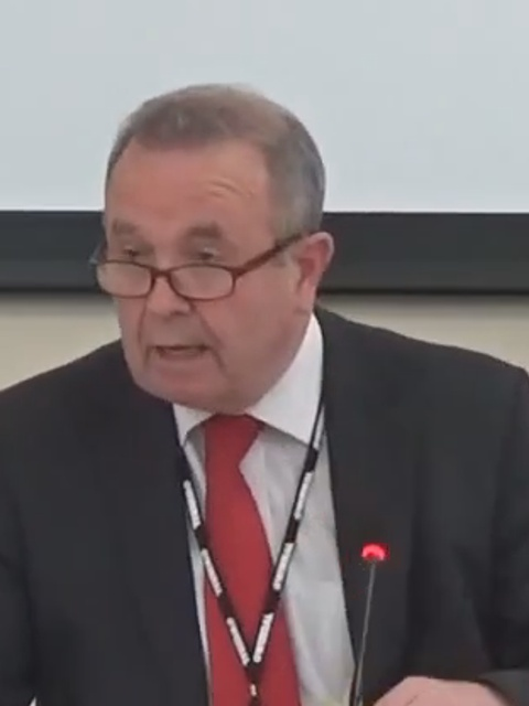 Video Capture of Cllr Pat Hackett.